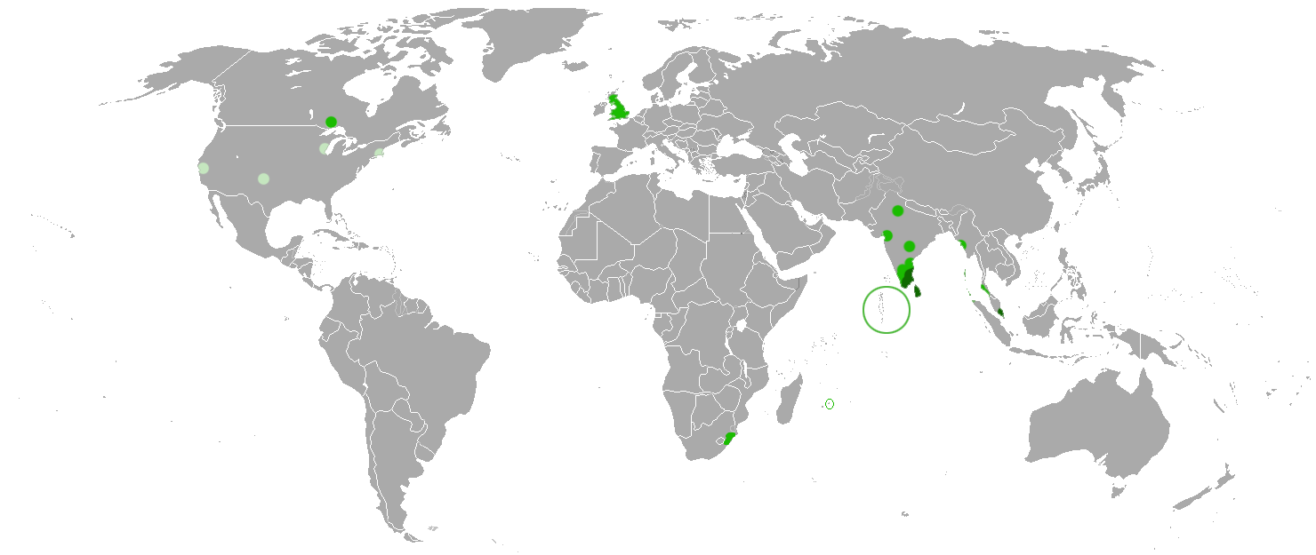 Tamil population around the world. Official status in Tamil Nadu India, Sri Lanka, Malaysia, Pondicherry, Andaman and Nicobar islands, South Africa, Mauritius, Singapore, United Kingdom, Myanmar, USA, Australia, France, Eastern Canada and Lakshadweep islands. And a significant population around the world. Updated using "BlankMap-World.png" from wiki.